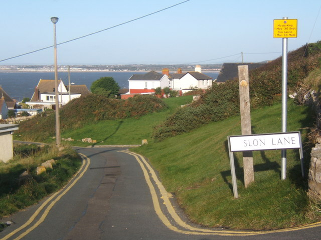 Slon Lane serving houses just below the coast road A very narrow lane with acute junctions to the main road through Ogmore by Sea at each end. The houses are in a great setting above the sea.